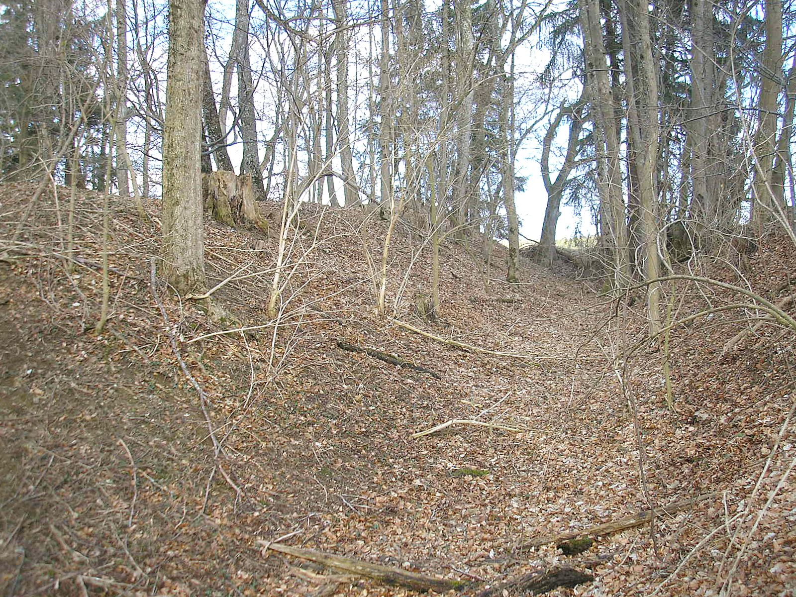 Helmishofen castle near Markt Kaltental (Landkreis Ostallgäu, Bavaria, Germany). The southern moat of the bailey, looking east